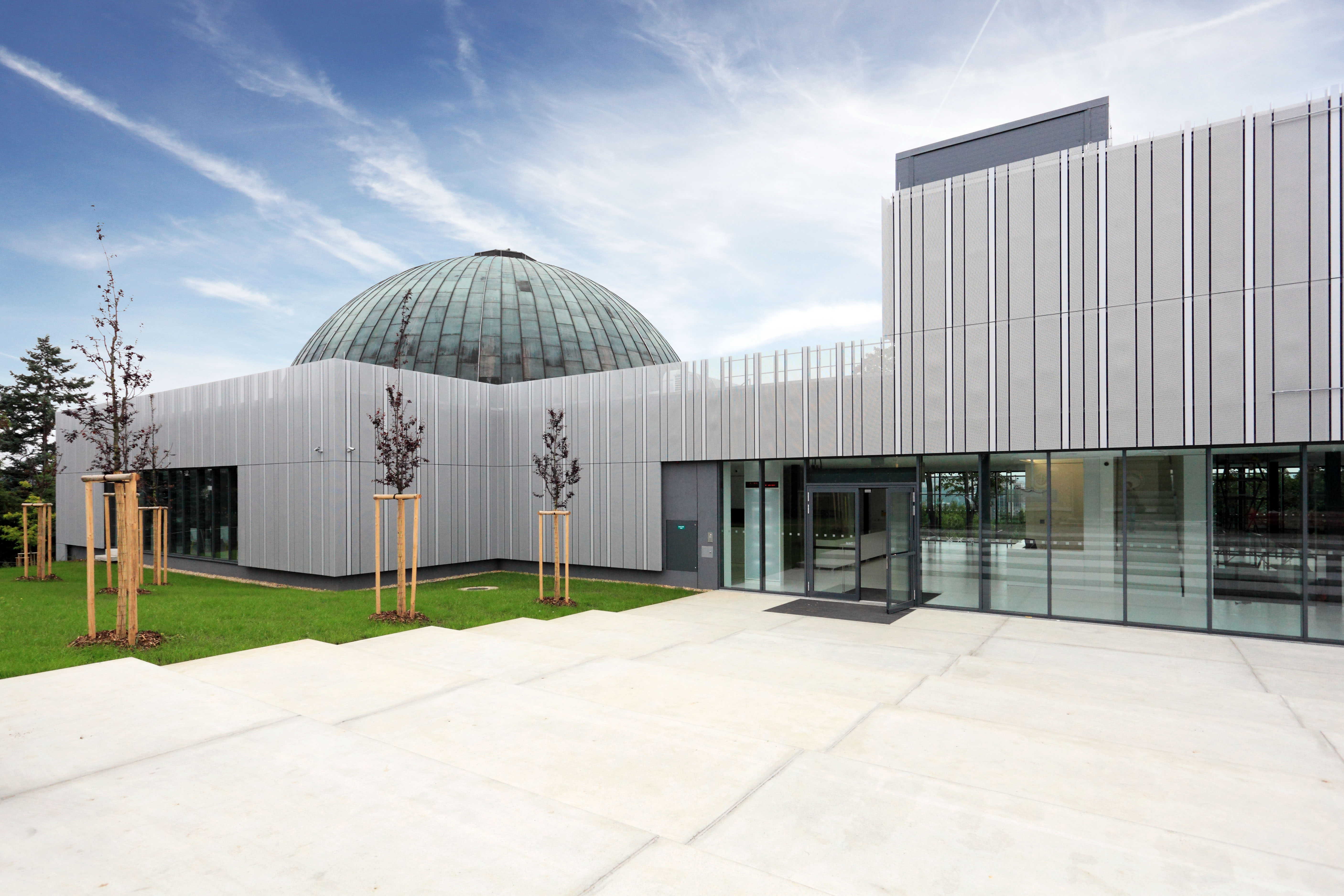 Brno Observatory and Planetarium's building at Kraví hora in Brno, Czech Republic